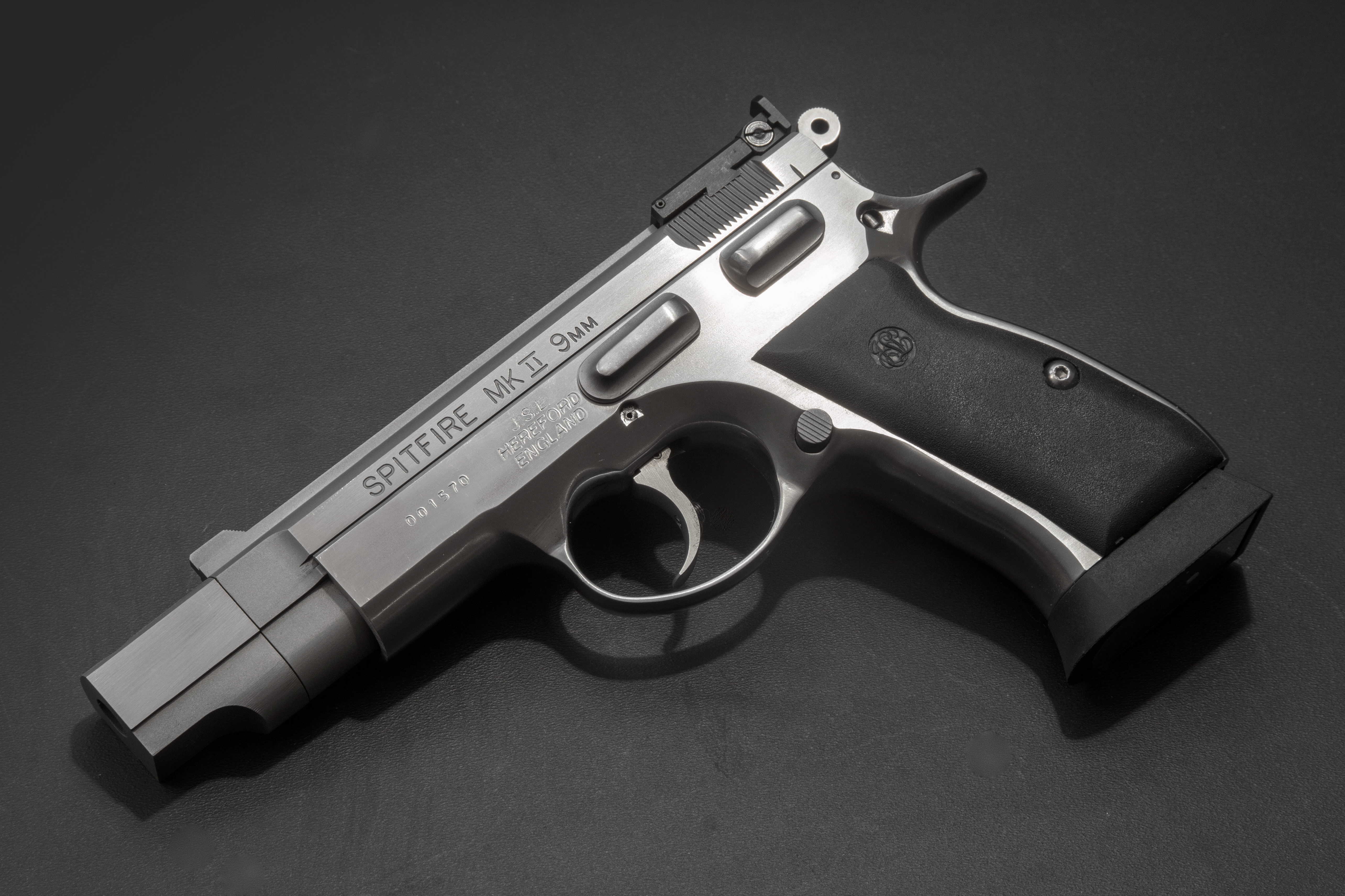 JSL Spitfire - British-made CZ75 clone